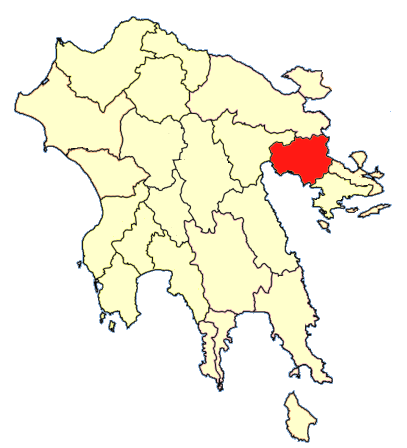 nayplia province